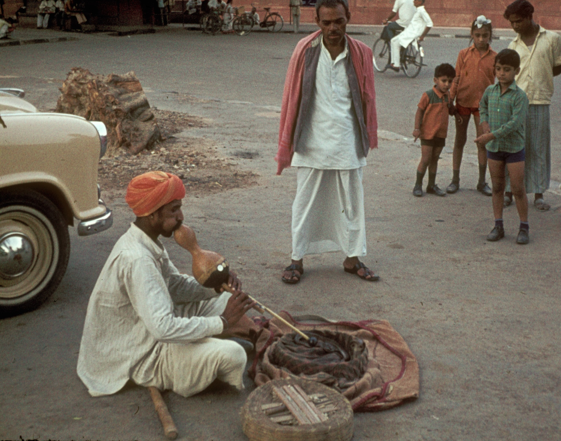 Snake charmer in Delhi on 20 June 1973. Picture taken and uploaded by Roger McLassus.